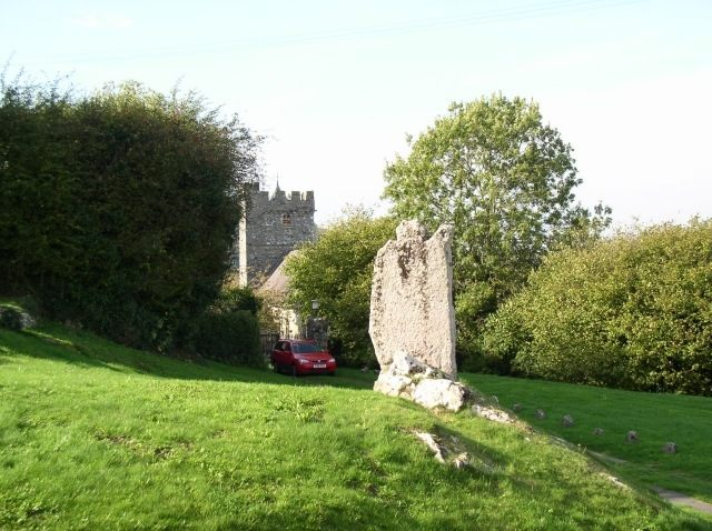 Standing stone with St Illtyd's Church The stone is the base of a wheel cross which had formerly been used as a pillory. (Source: "The Gower Churches", Geoffrey R Orrin)